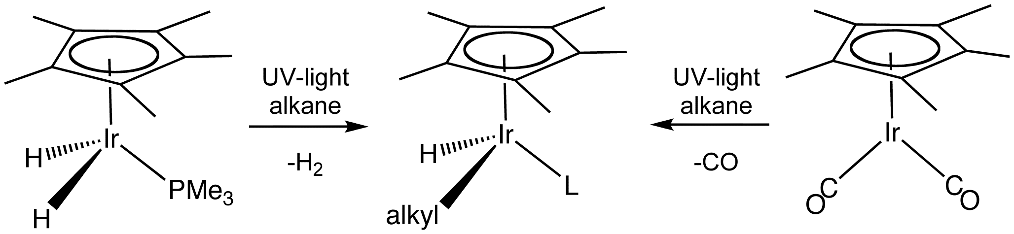 eq for "C-H activation" reaction